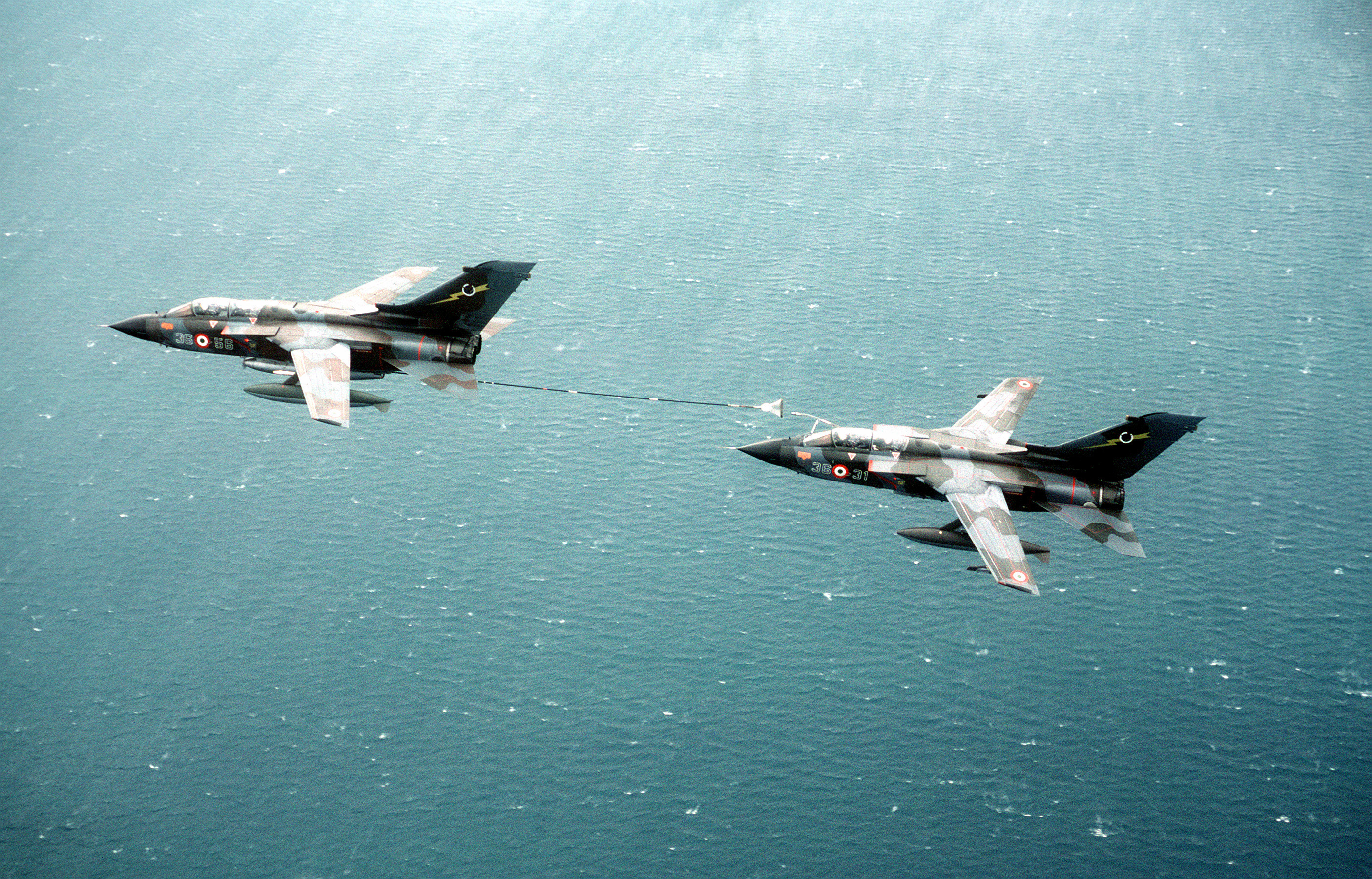 An Italian Aeronautica Militare Panavia Tornado IDS aircraft approaches the refueling drogue trailing from the "buddy store" tank carried by a second Tornado as the aircraft operate off southern Italy during the NATO exercise Dragon Hammer '87. Both aircraft were assigned to the 36° Stormo at Gioia del Colle (Bari) airbase.